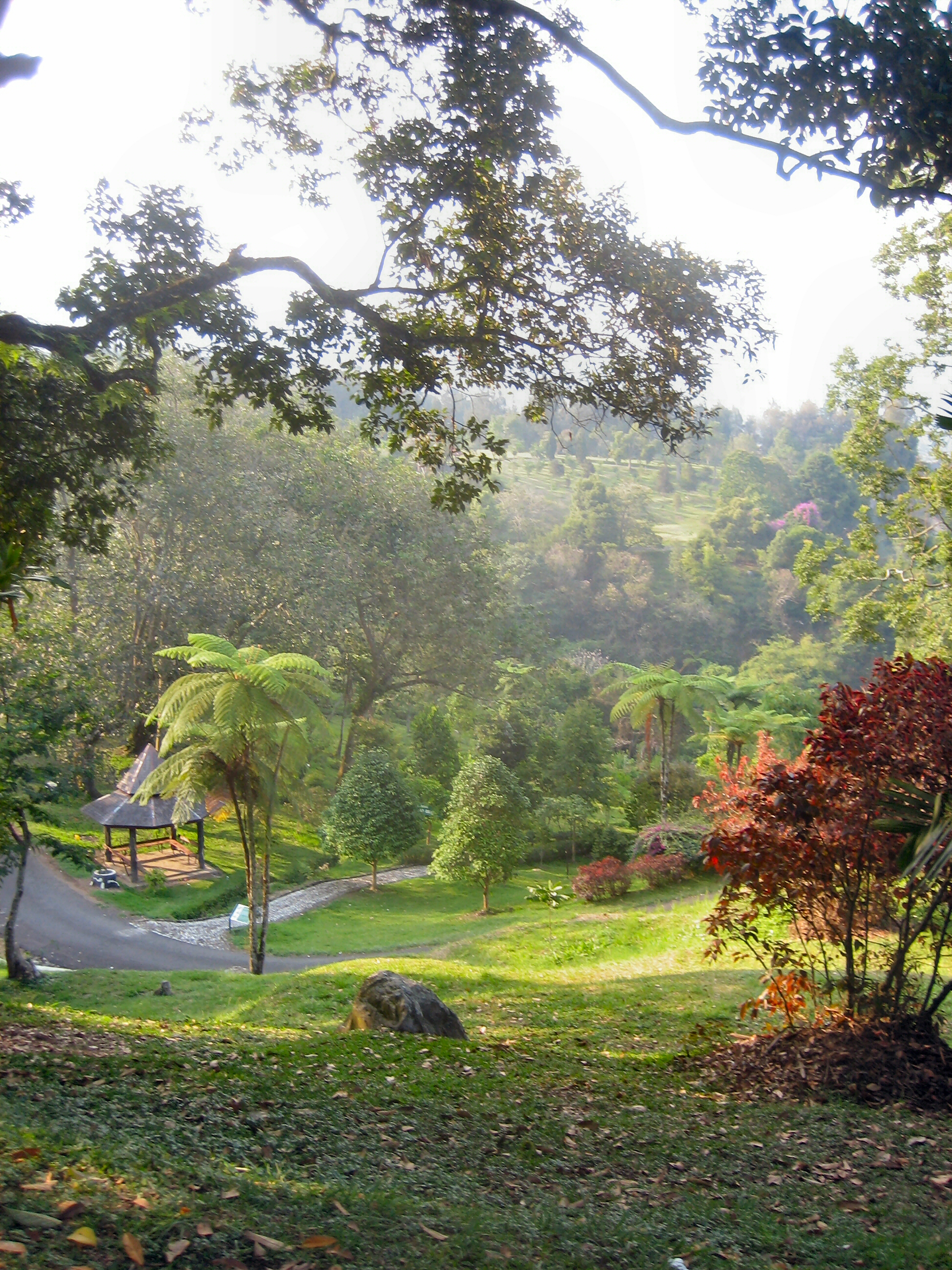 Cibodas Botanical Garden Java Indonesia Picture taken nov-2006 by Hullie